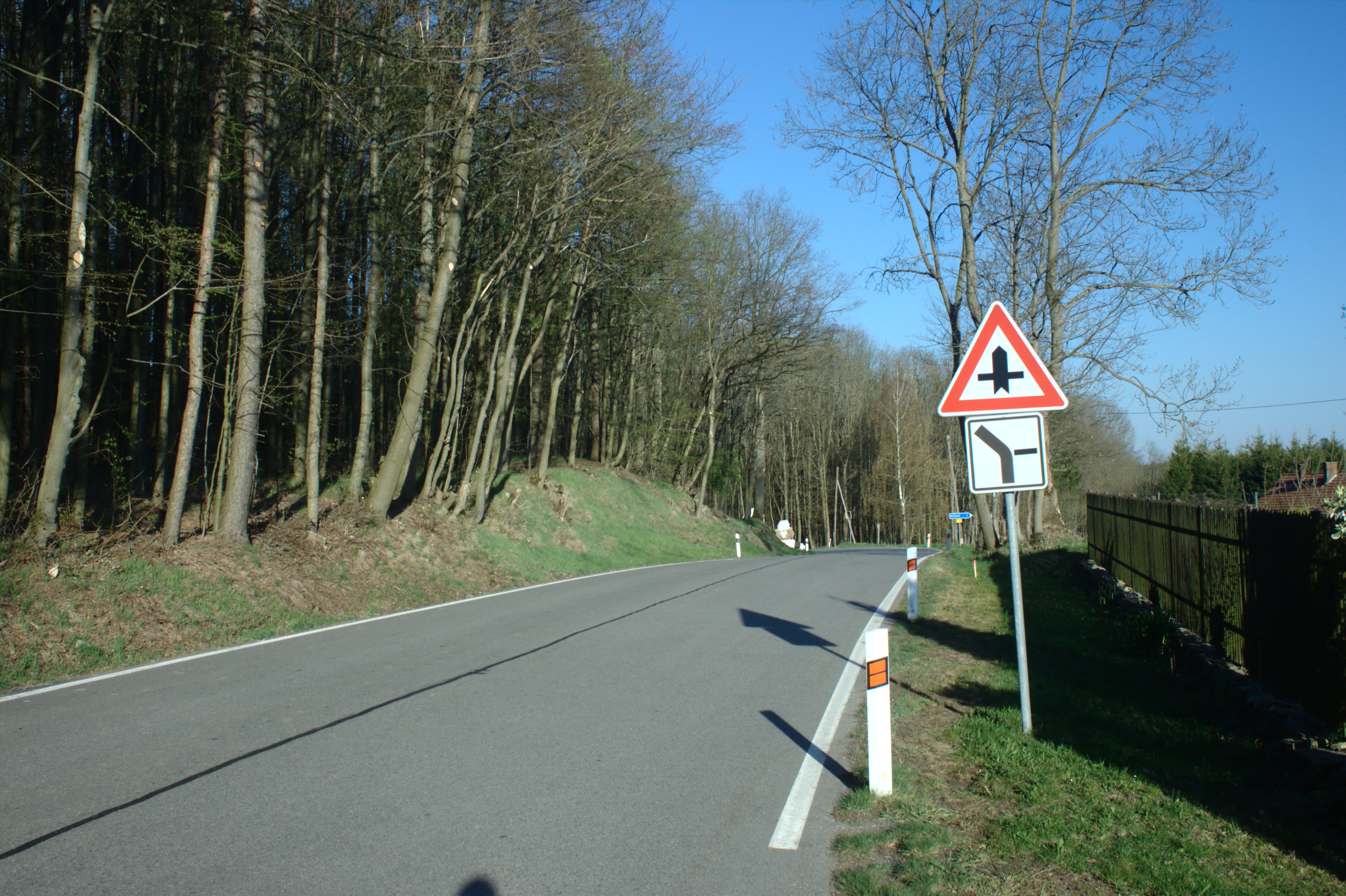 This photograph was created as a part of Wikiexpedition Mladá Vožice, a project supported by Wikimedia Foundation grant.